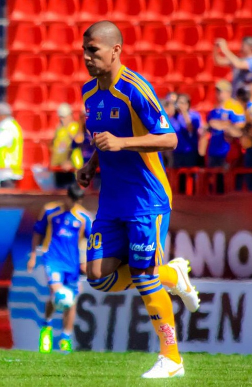 Mexican player Carlos Salcido